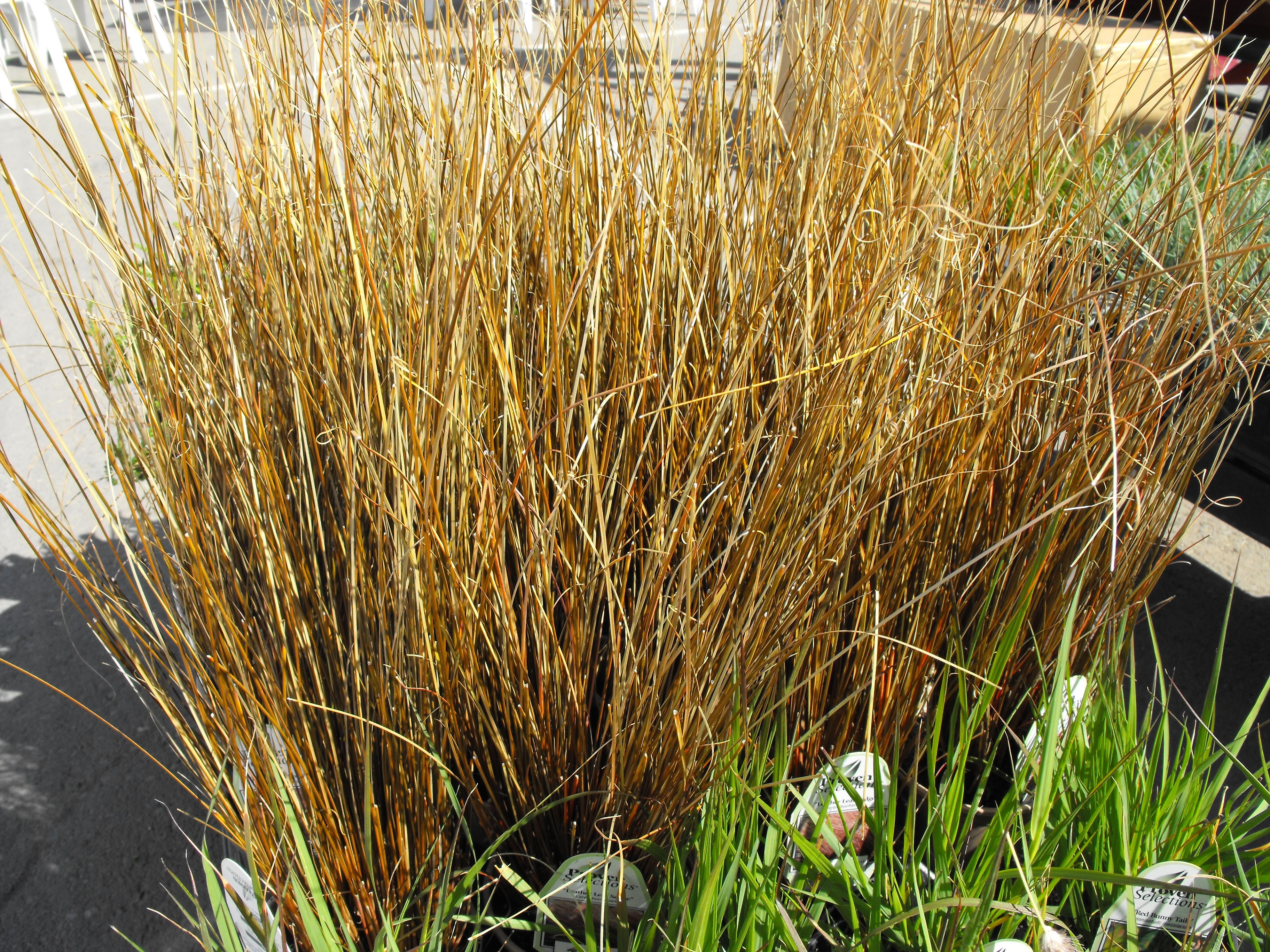 Carex buchananii at the San Diego Home & Garden Show, Del Mar, California, USA. Identified by exhibitor's sign.